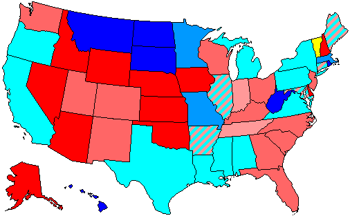 Summary of party control of U.S. house seats in the 104th United States Congress following election. Stripes indicate a tie between two or more parties. Legend: 80.1-100% Democratic seat majority 60.1-80% Democratic seat majority 60% or less Democratic seat plurality 60% or less Republican seat plurality 60.1-80% Republican seat majority 80.1-100% Republican seat majority 80.1-100% Independent seat majority